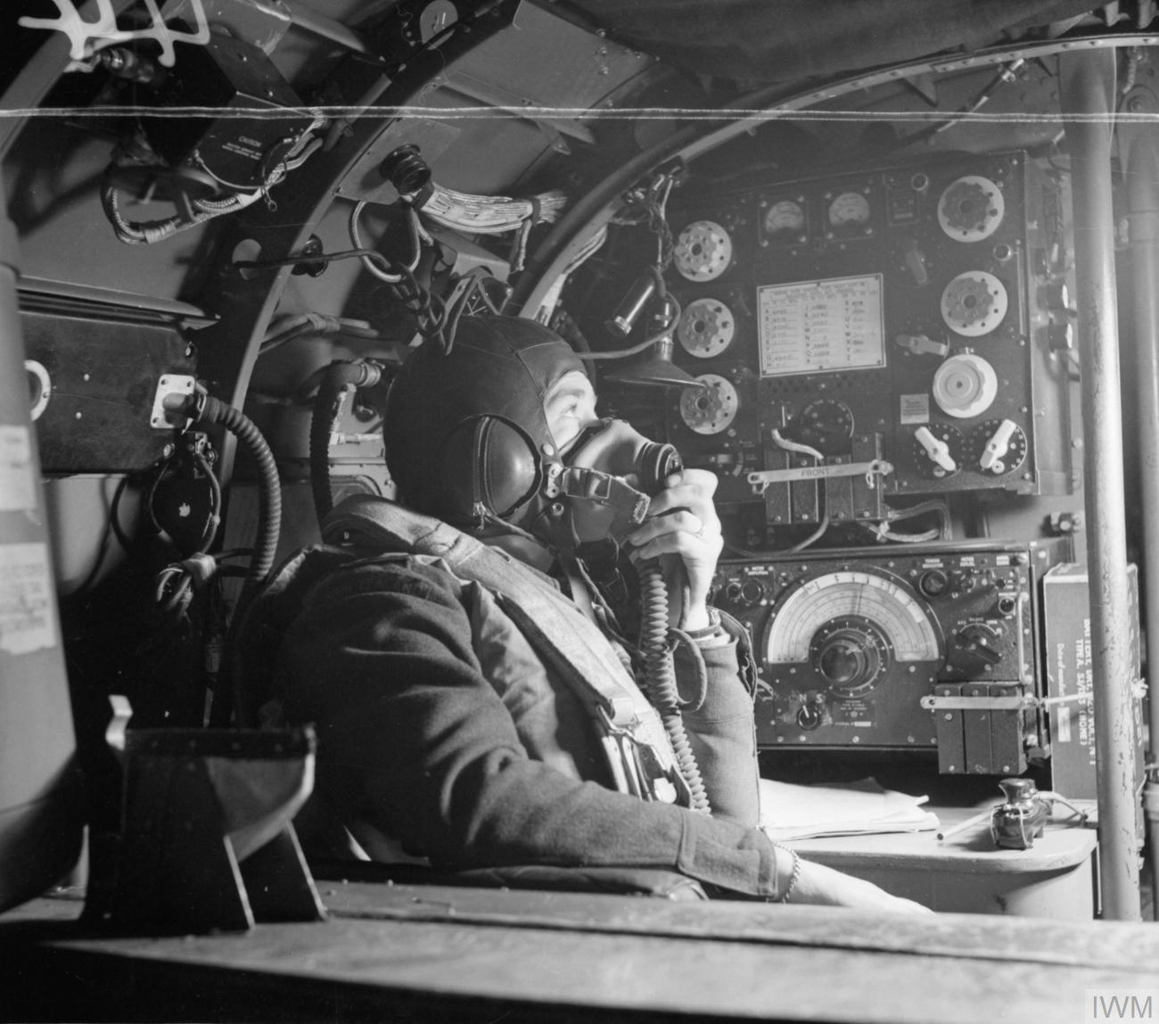 IWM caption : Flying Officer R W Stewart, a wireless operator on board an Avro Lancaster B Mark I of No. 57 Squadron RAF based at Scampton, Lincolnshire, speaking to the pilot from his position in front of the Marconi T1154/R1155 transmitter/receiver set.